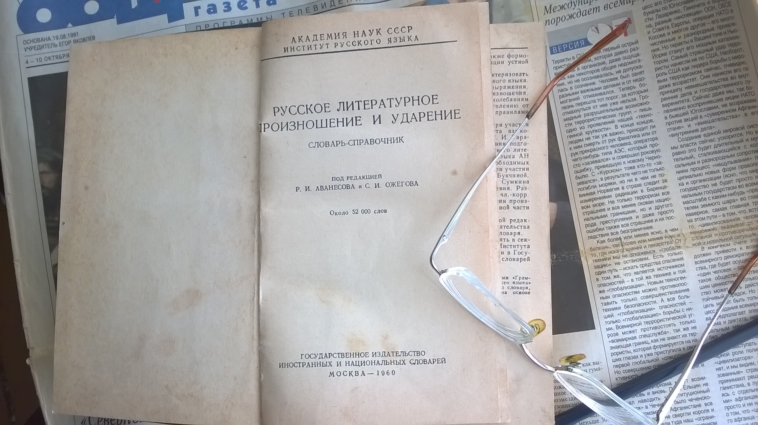 Photograph of Book of Dictionary of Russian pronunciation, Moscow 1960. Photographed by me. June 7, 2020